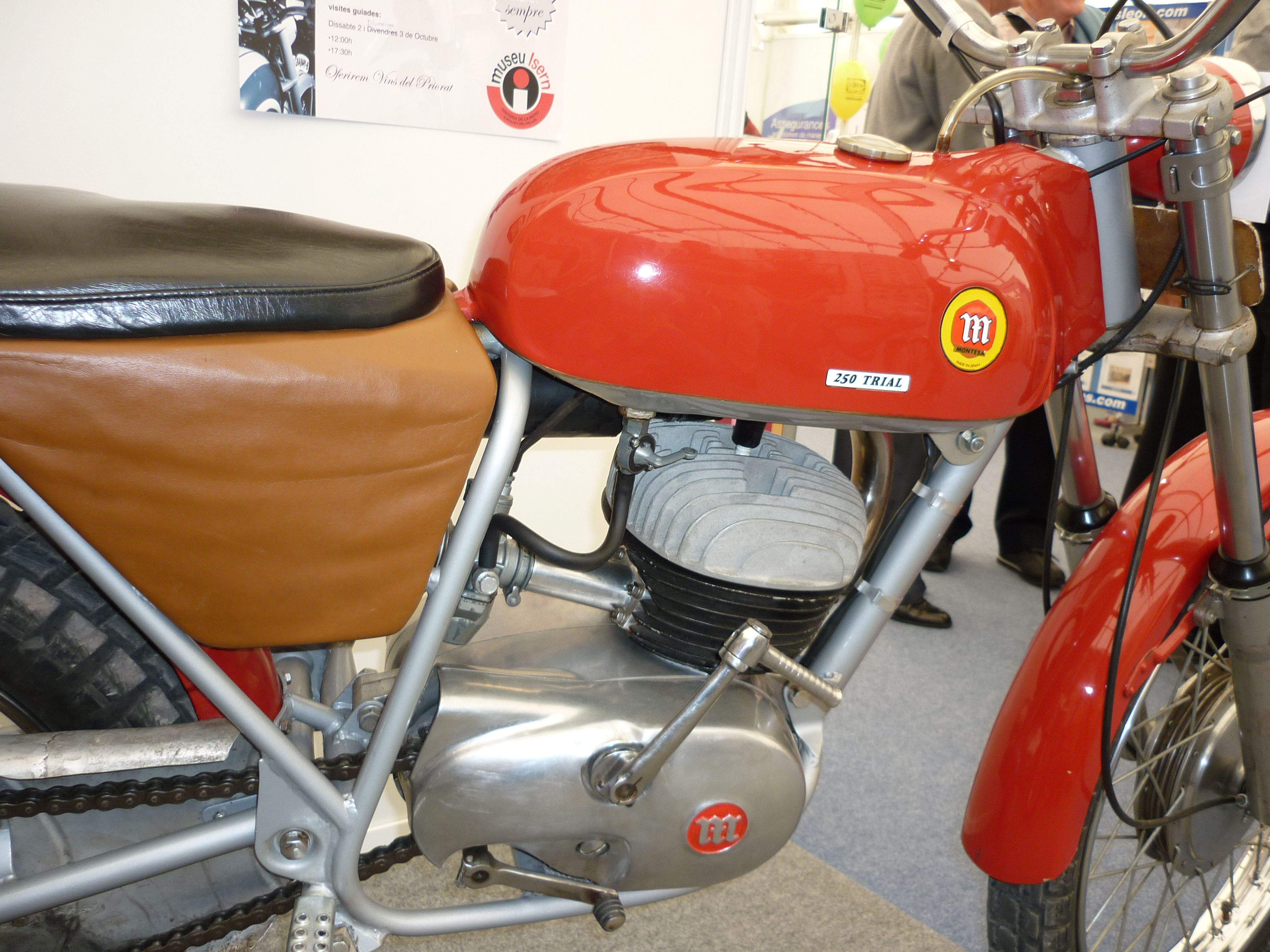 Montesa 250 Trial, the forerunner of the famous Cota 247. Pere Pi won the first Spanish Trials Championship in 1968, riding this bike.Exposed by Josep Isern at the FIMO (Mollet del Vallès, Catalonia, 1 to 3 October 2010)